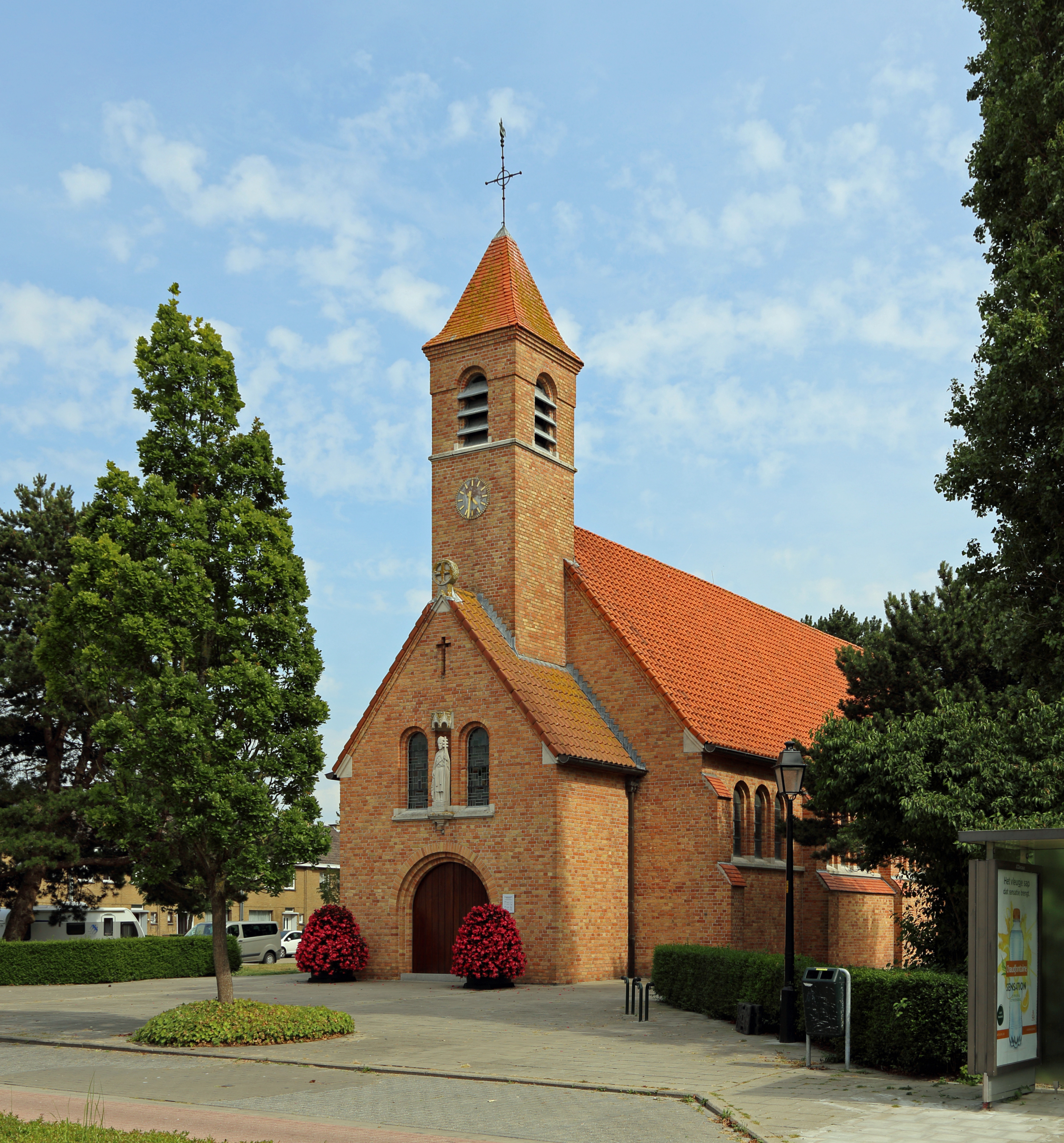 Zwankendamme (municipality of Bruges, Belgium): Saint Leo the Great church